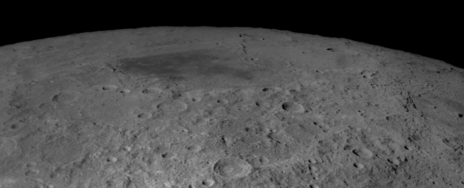 Oblique view of the Humboldtianum Basin, with Mare Humboldtianum at center, on the moon. Apollo 16 Mapping Camera image during trans-Earth injection.